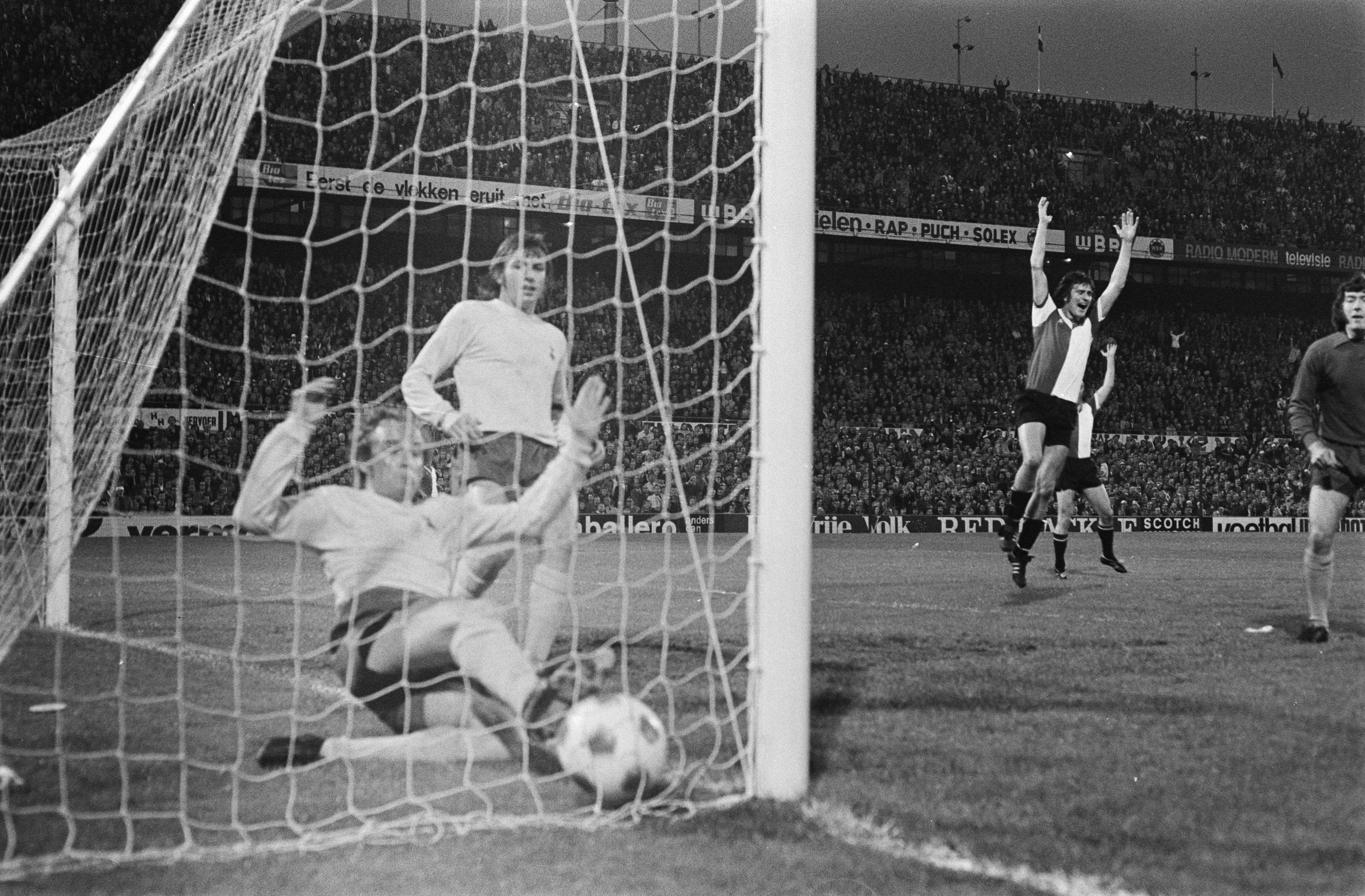 Final of UEFA Cup in 1974 second leg, between Feyenoord and Spurs, showing first goal by Wim Rijsbergen (not in picture), and Phil Beal attempting a goal-line clearance. Feyenoord's Lex Schoenmaker celebrating, Spurs' Martin Peters and Pat Jennings also in image. Won by Feyenoord 2–0 (4–2 on aggregate)